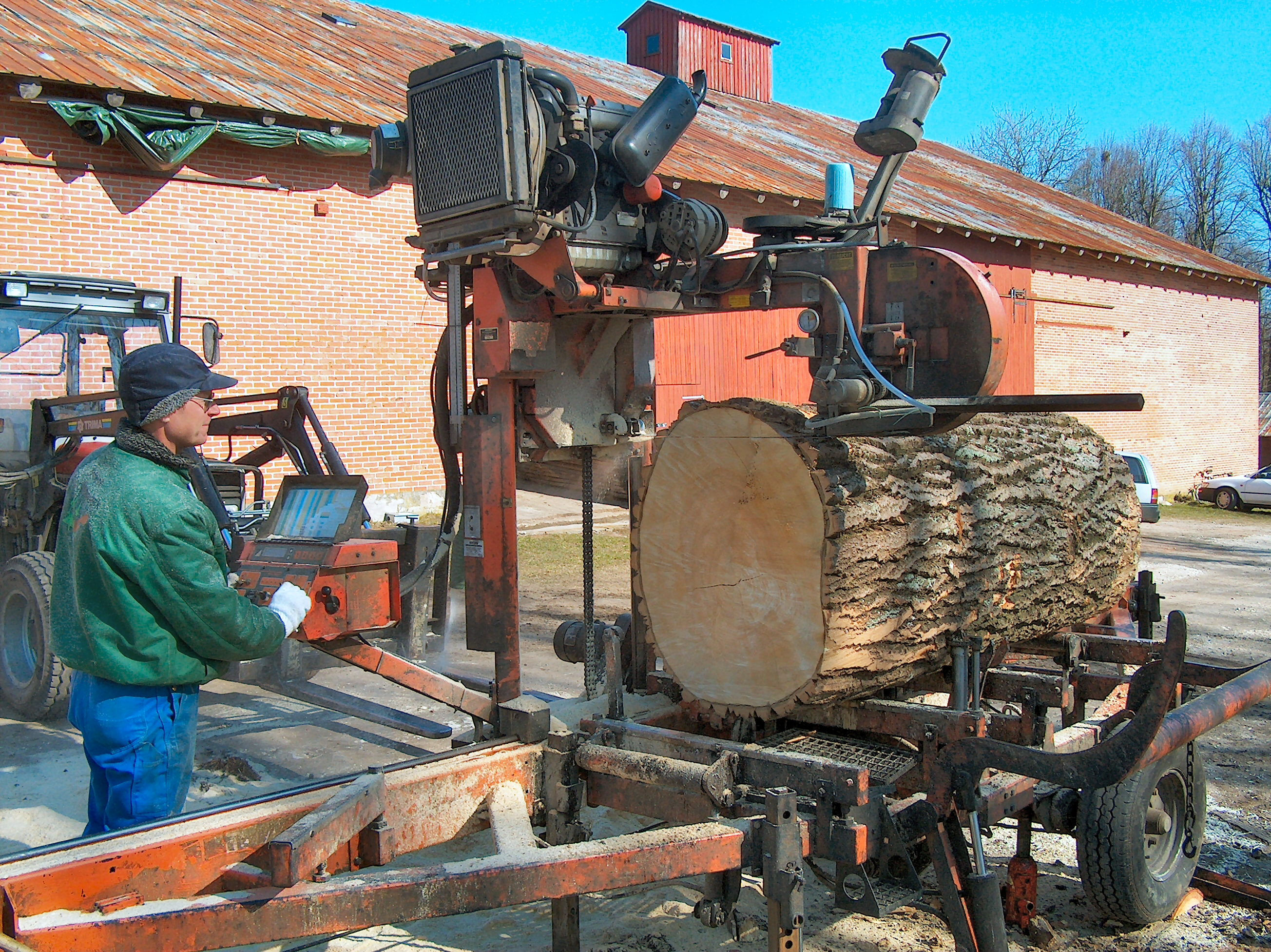 Transportabel band saw at work near Moesgaard Museum